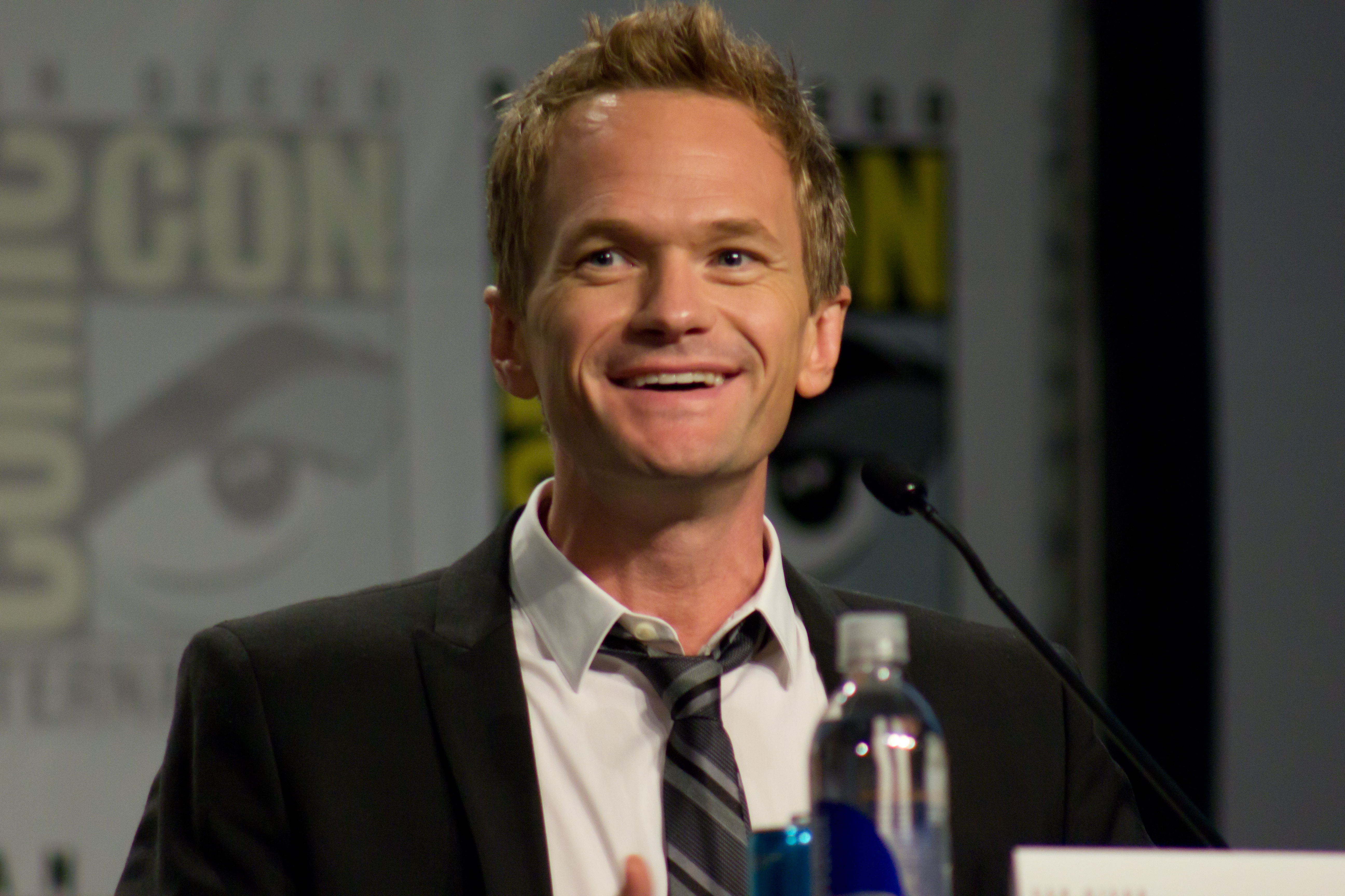 Neil Patrick Harris at the 2013 San Diego Comic Con